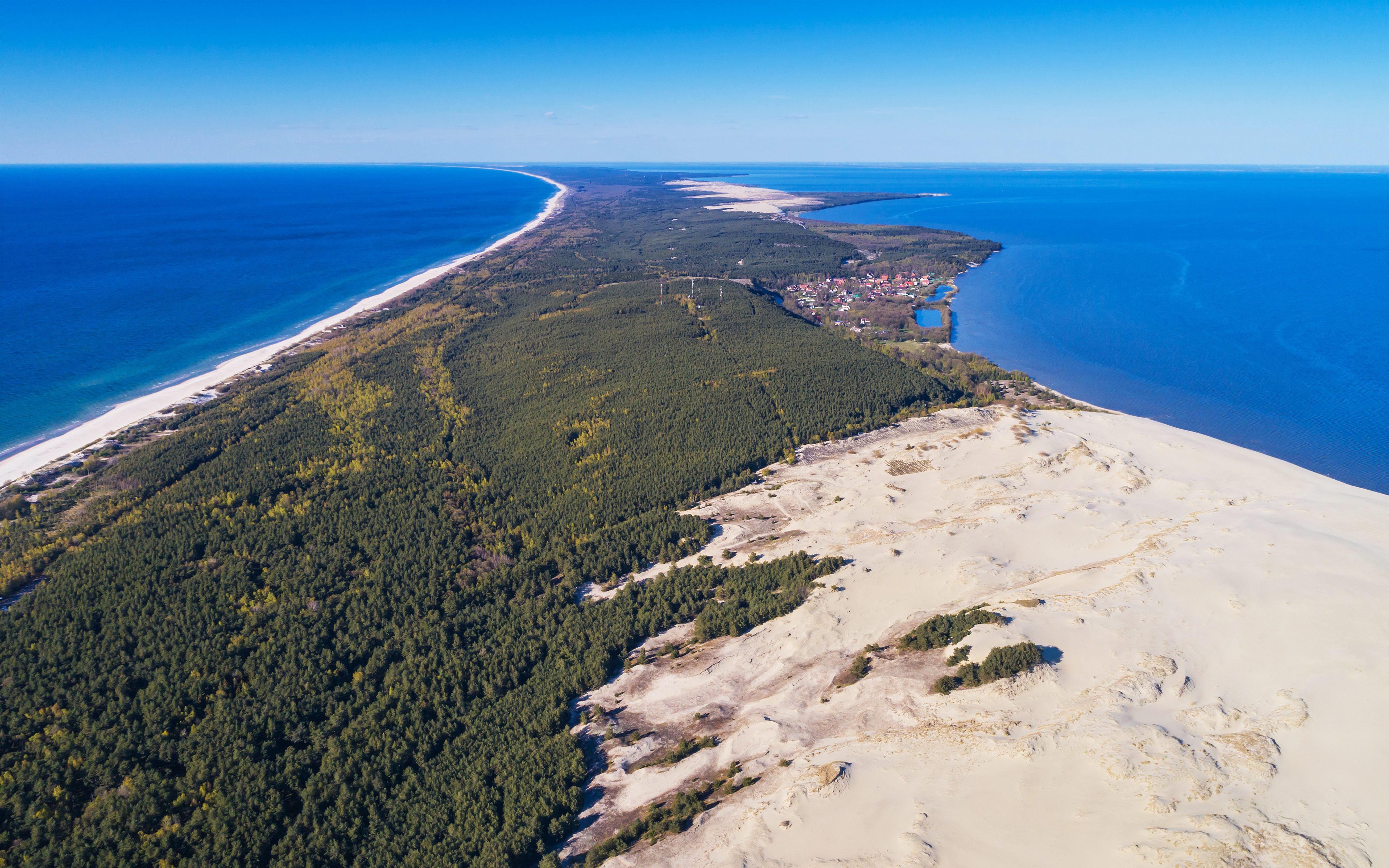 Curonian Spit in Kaliningrad Oblast (Russia). Aerial view over Epha Dune.